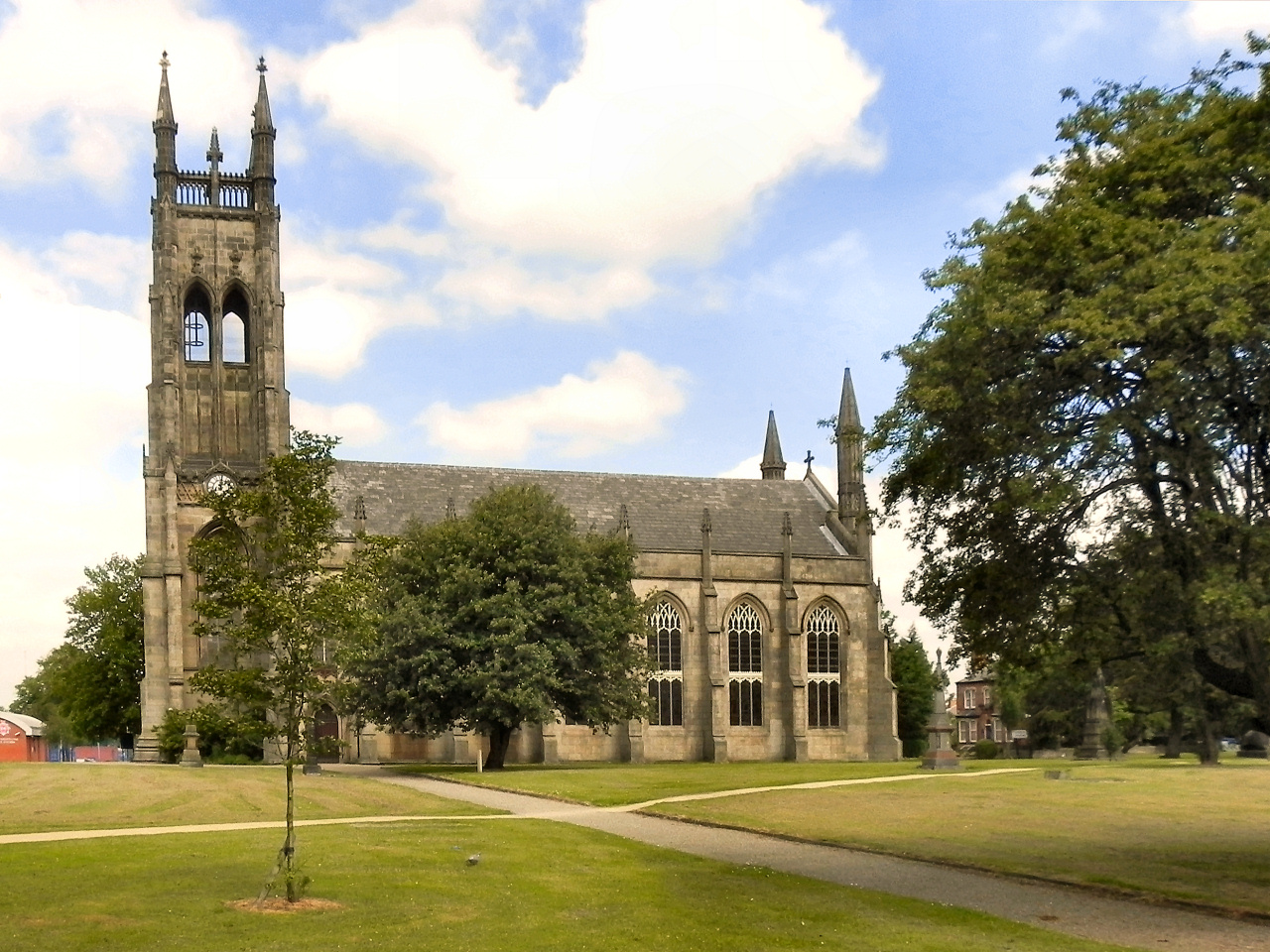 Photograph of St Peter's Church, Ashton-under-Lyne, Greater Manchester, England